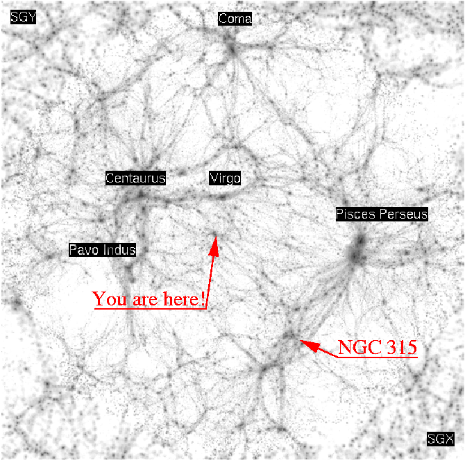 The present day dark matter distribution in a slice cut through a simulation of a flat universe with cosmological constant. The slice has a side length of 520 million light years, and a thickness of 100 million light years. It contains the so-called "supergalactic plane". The major nearby clusters, like Coma, Virgo, Perseus, are labelled.